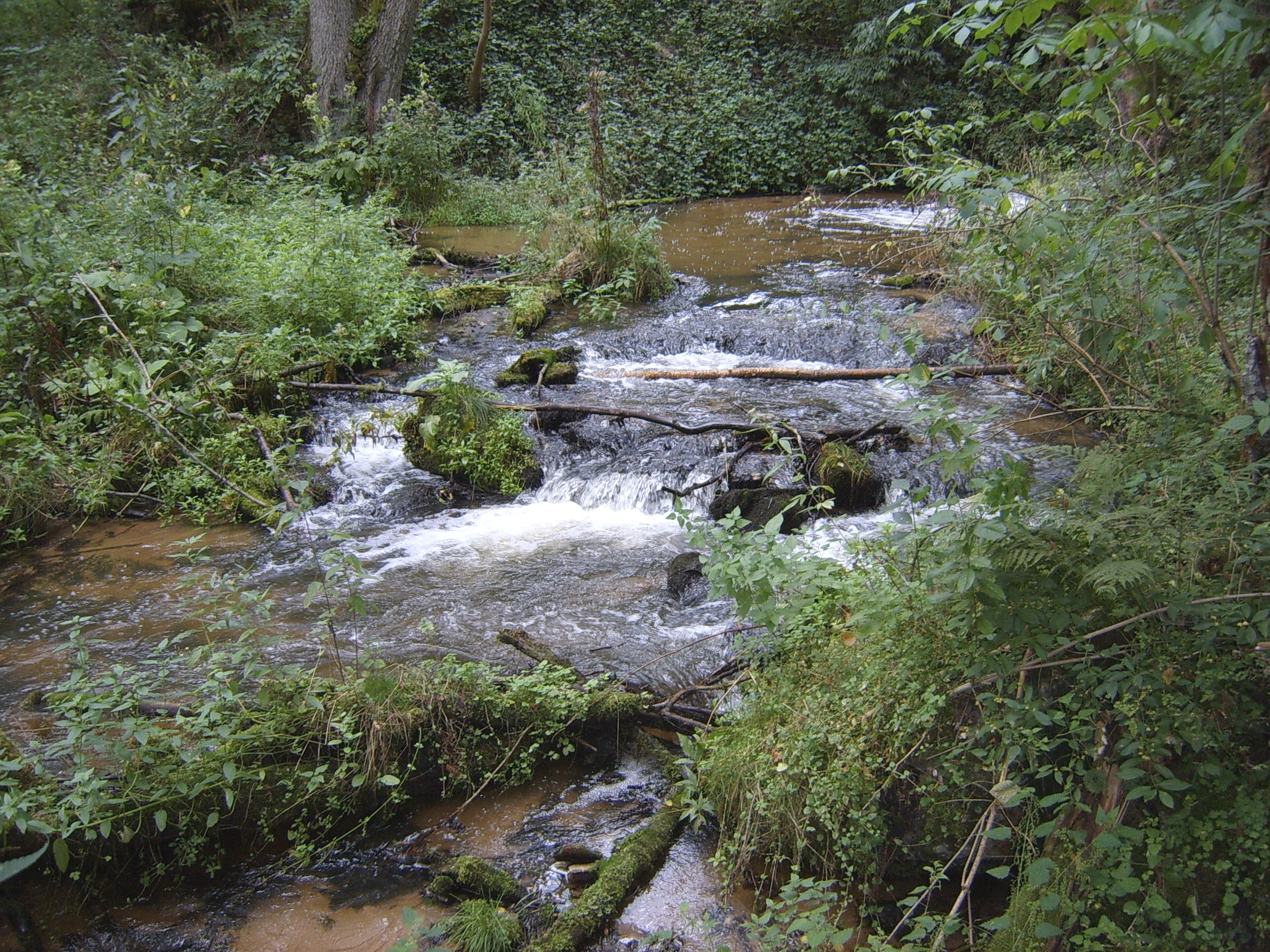 River Sopot in Roztocze region, Poland